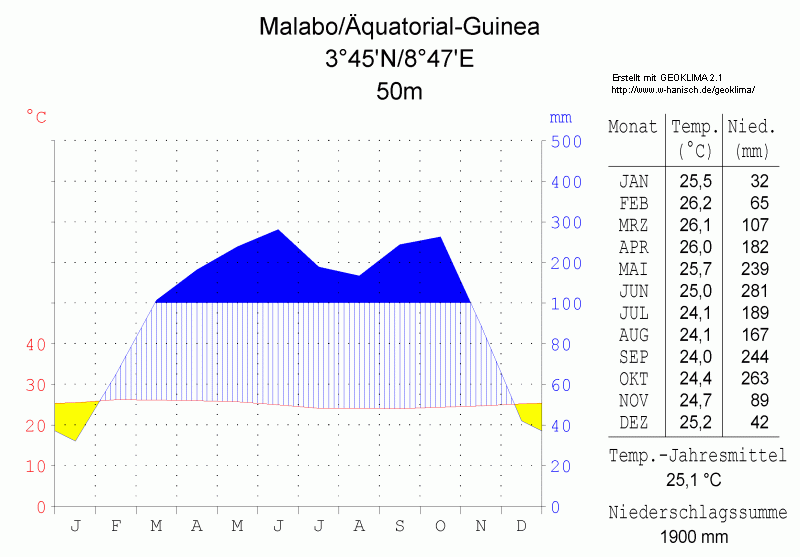 climate chart in the format by Walther and Lieth